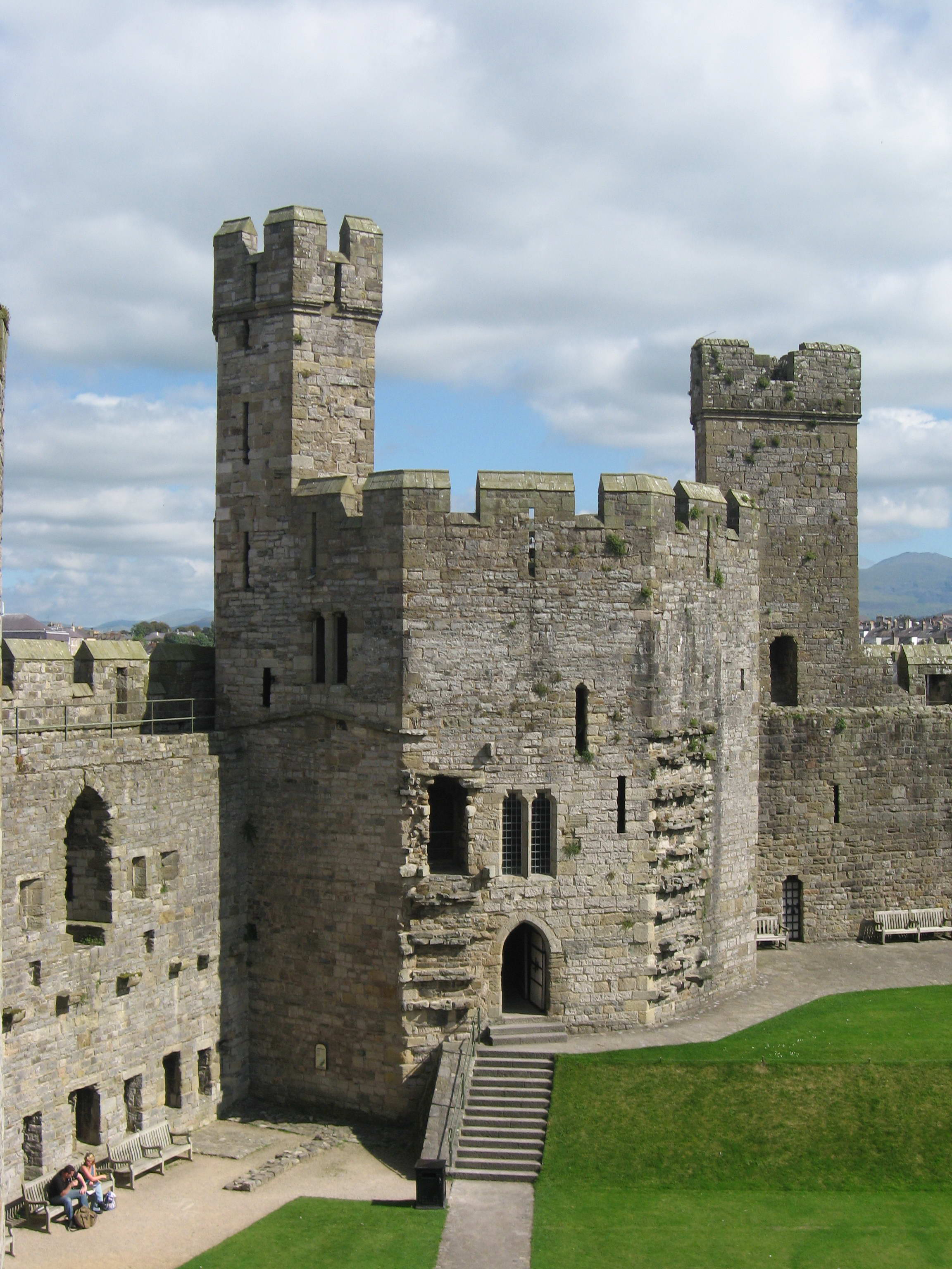 Caernarfon Castle:The North-East Tower